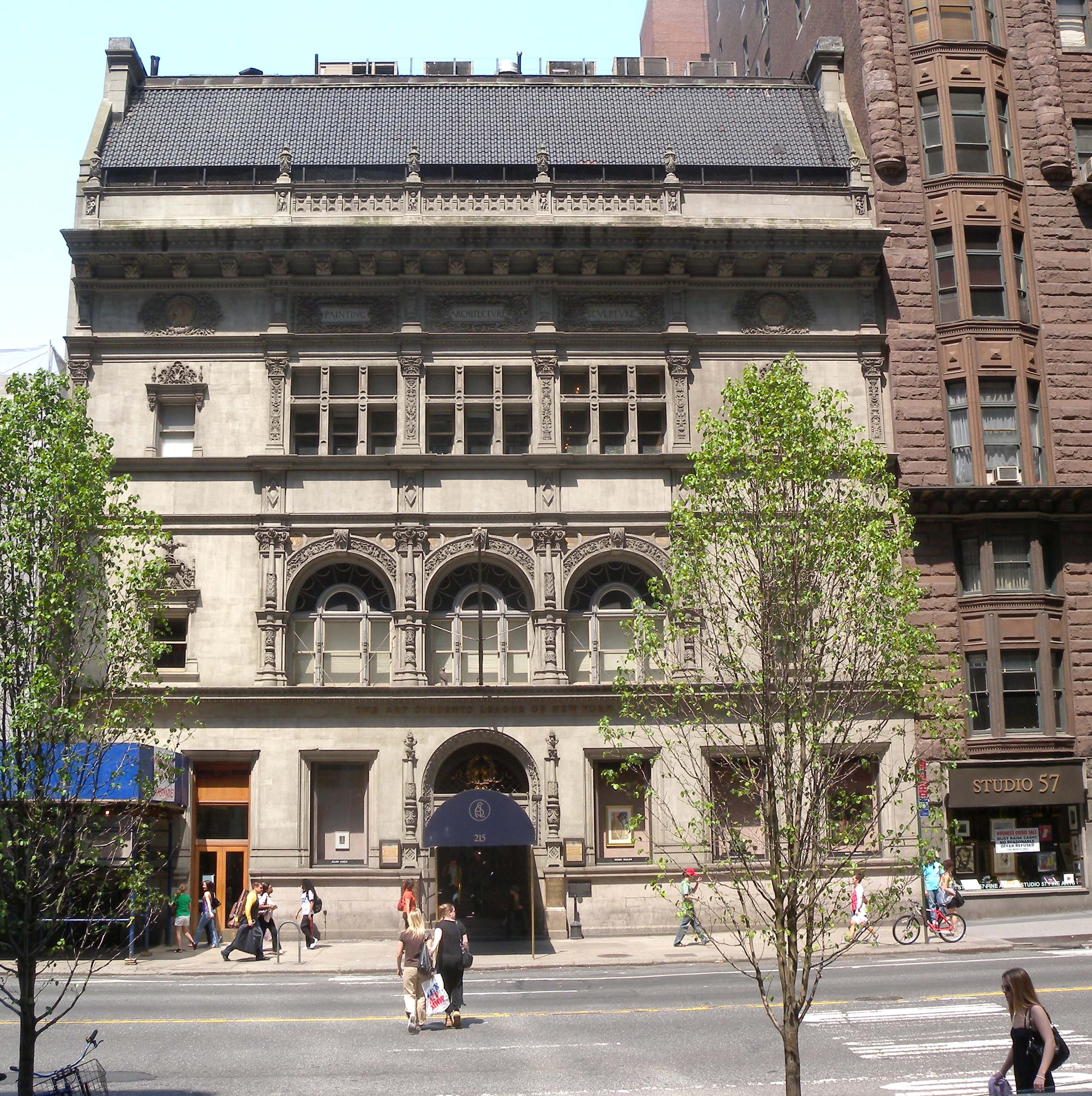 Looking north across 57th St at Art Students League of New York on a sunny afternoon.